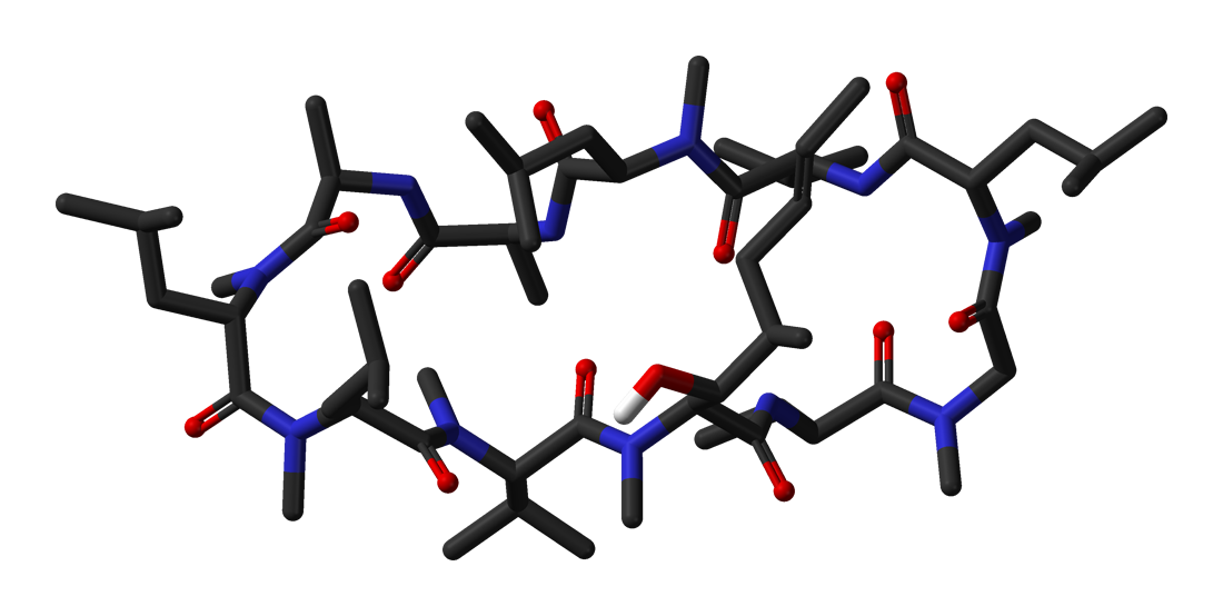 Stick model of ciclosporin, as found in the P212121 crystalline form. Neutron diffraction data from R. B. Knott, J. Schefer and B. P. Schoenborn (1990). "Neutron structure of the immunosuppressant cyclosporin A". Acta Crystallographica Section C 46: 1528-1533.